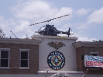 Scene from the Police Academy Stunt Show